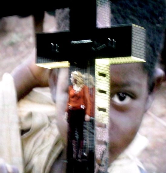 Madonna in her Confessions Tour, with an African kid in the background's screen.